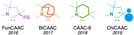 The family of Cyclic (alkyl)(amino)carbenes